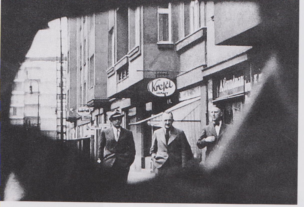 Photo of staff captain Tauer (on the left), major Frank (on the right) and Abwehr agent Paul Thümmel aka A-54 (in the middle) taken secretly from the car in Prague in August 1938.